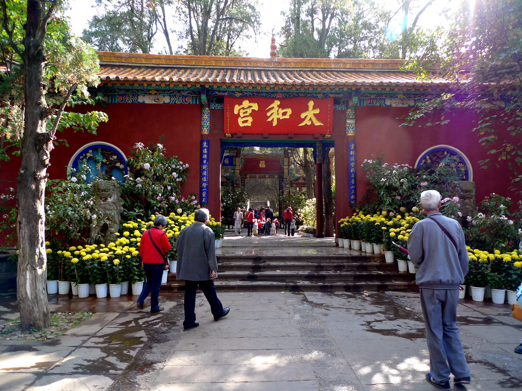 Kunming Taihe Palace